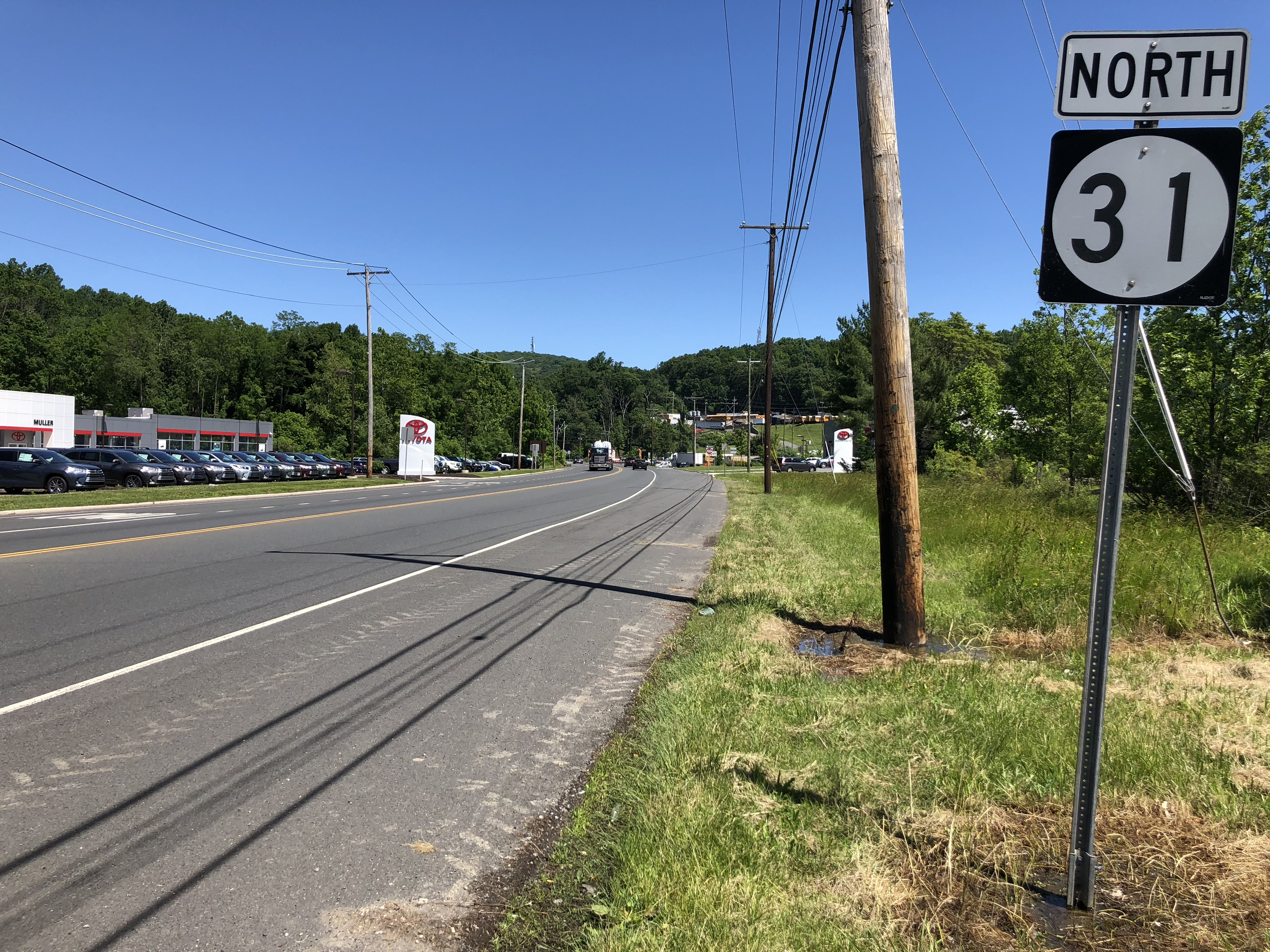 View north along New Jersey State Route 31 at Van Syckels Road in Lebanon Township, Hunterdon County, New Jersey